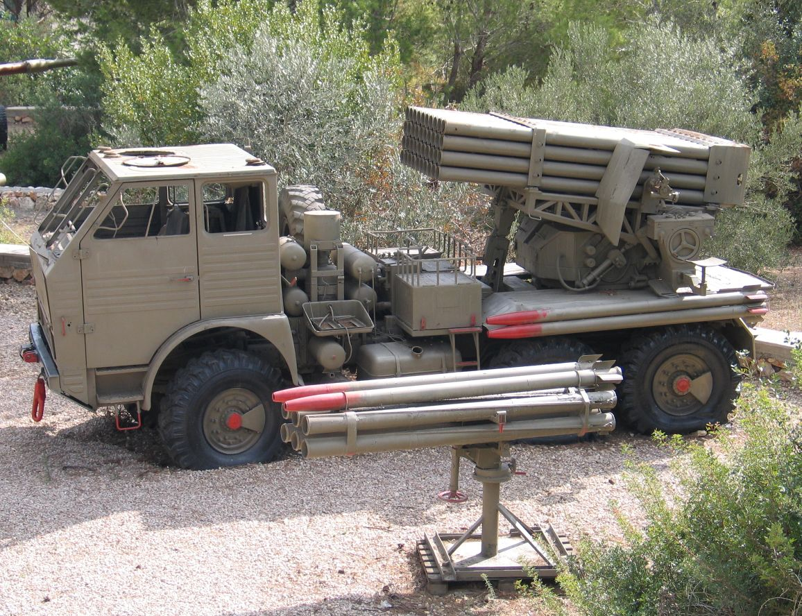 Description: APR-40 (a Romanian version of BM-21 Grad using local DAC-665T truck) in Beyt ha-Totchan, Zichron Yaakov, Israel. 2005. Source: Photo by me, User:Bukvoed.